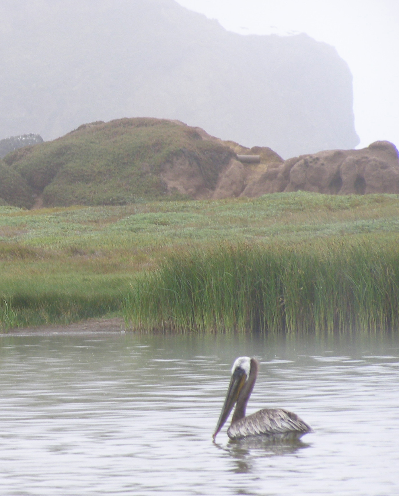 A brown pelican, Pelecanus occidentalis, floating in Rodeo Lagoon, July 2007